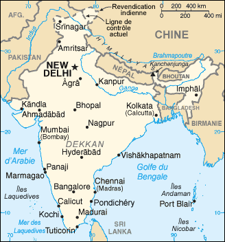 Map in French of India